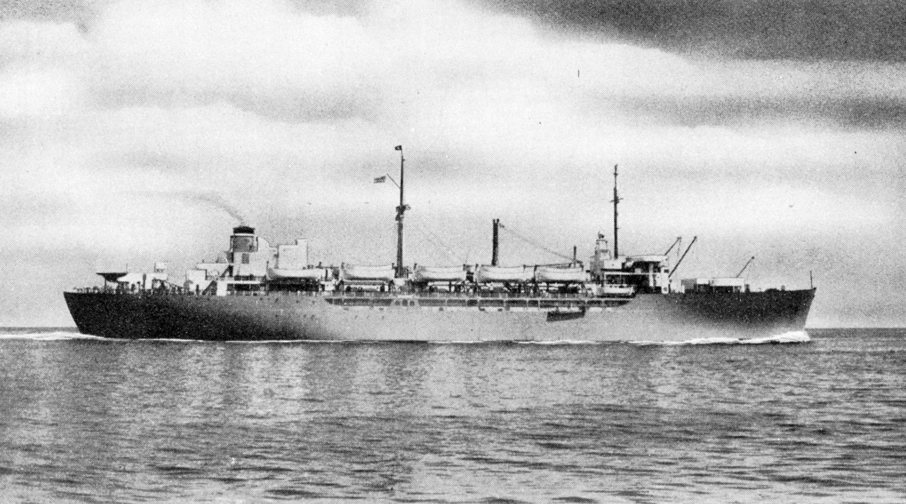 The U.S. Army Transport USAT General J. H. McRae, circa 1946-1950. This ship served as USS General J. H. McRae (AP-149) from 1944 to 1946 and USNS General J. H. McRae (T-AP-149) from 1950 to 1968 (laid up since 1954). Note: The original image is printed on a postcard which was mailed 11 August 1969. The ship's markings strongly indicate that the photograph was taken about two decades earlier, while she was in U.S. Army service.